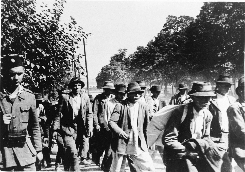 Image information from US Holocaust Memorial Museum Photograph #85799 Description: Serbs and Gypsies who have been rounded up for deportation are marched to the Jasenovac concentration camp under Ustasa guards. Date: Circa 1942 - 1943 Locale: [Croatia] Yugoslavia Credit: USHMM, courtesy of Muzej Revolucije Narodnosti Jugoslavije Copyright: Public Domain